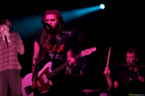 Pvris rocking the House of Blues in Orlando, Florida.